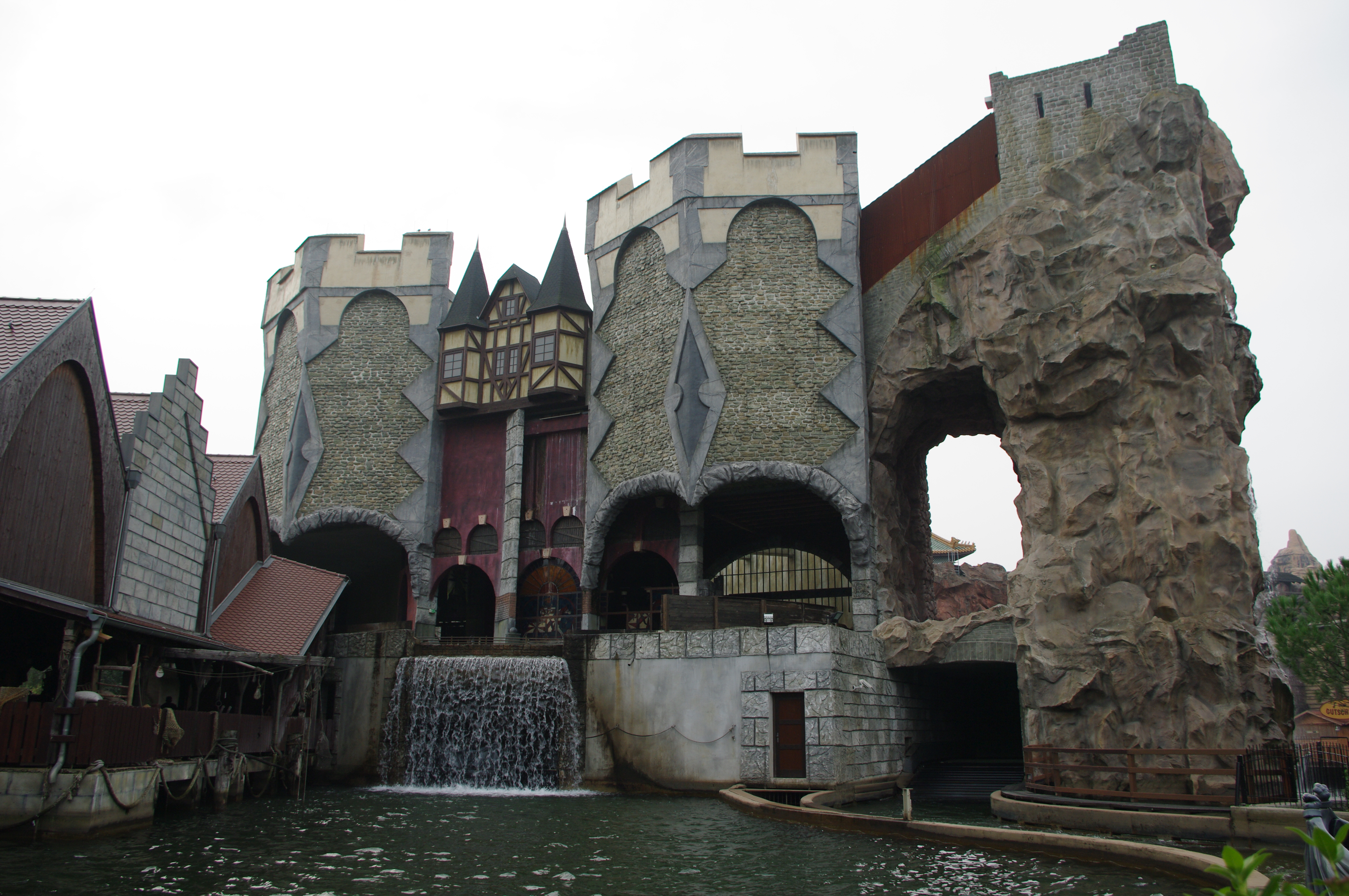 The building of River Quest in Phantasialand